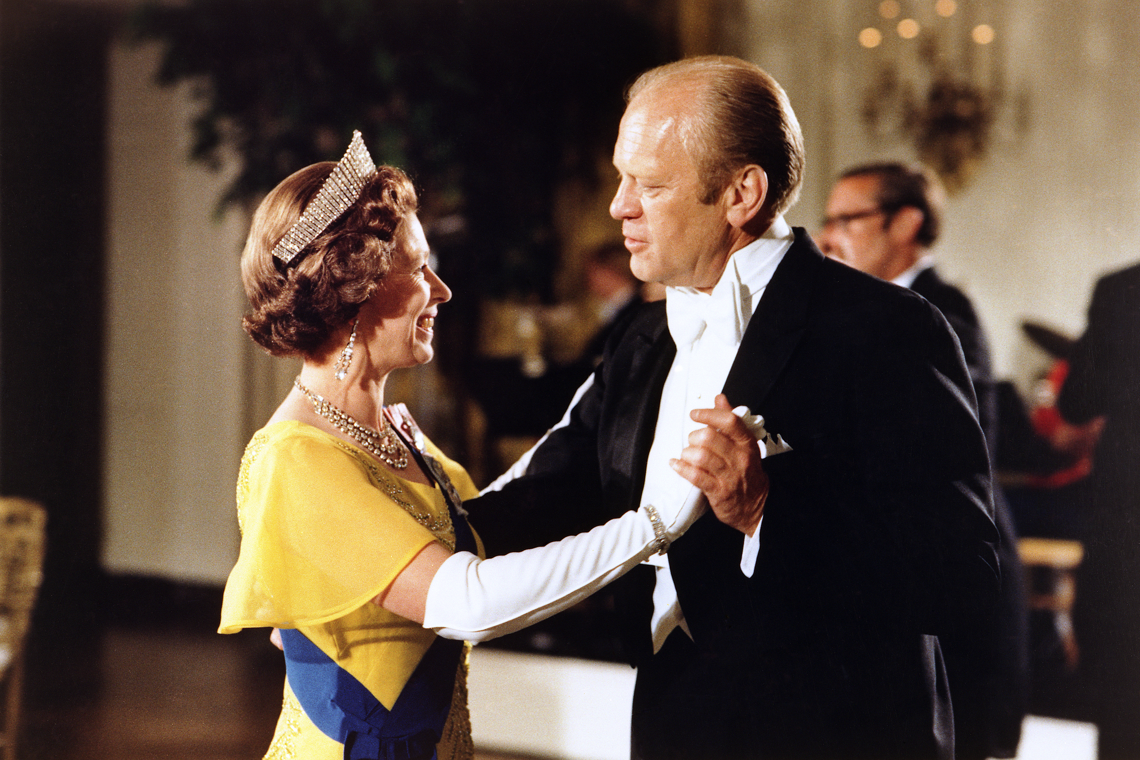 Photograph of President Gerald Ford dancing with Queen Elizabeth II during a State Dinner held in her honor.